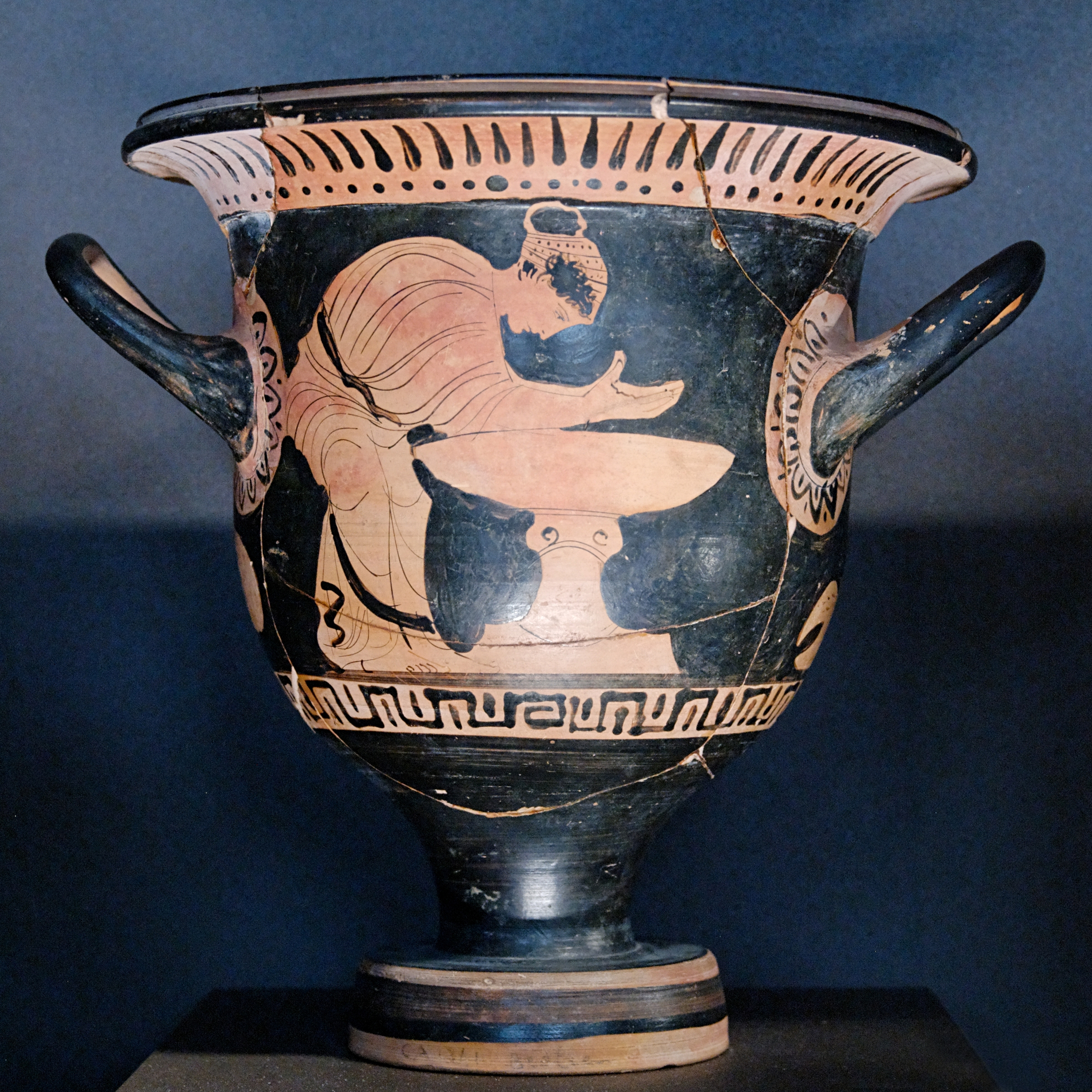 Woman washing at a louterion (water basin). Side B from a Boeotian red-figure bell-crater, 450–425 BC. From Boeotia.